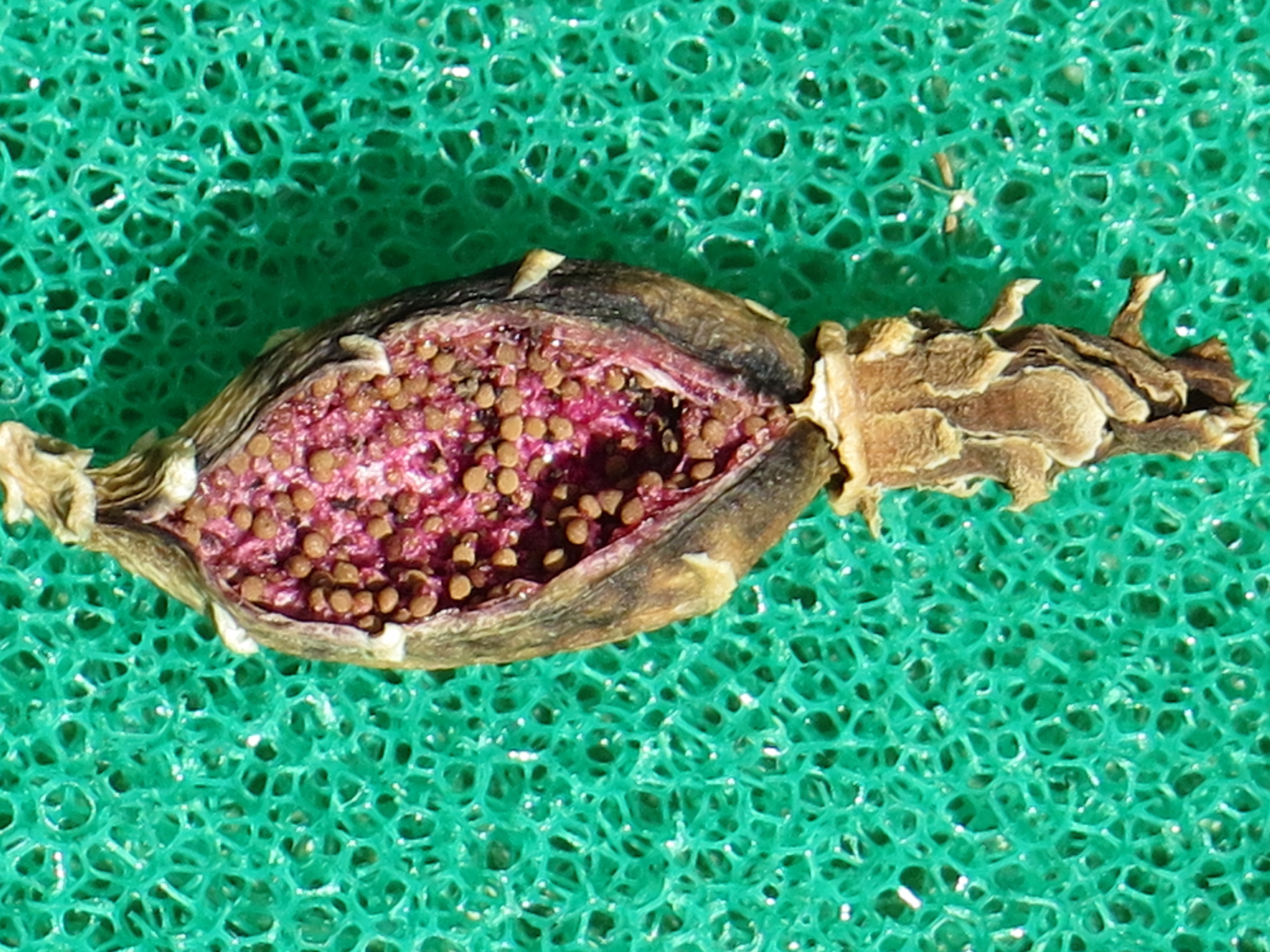 Seeds of gymnocalycium mihanovichii